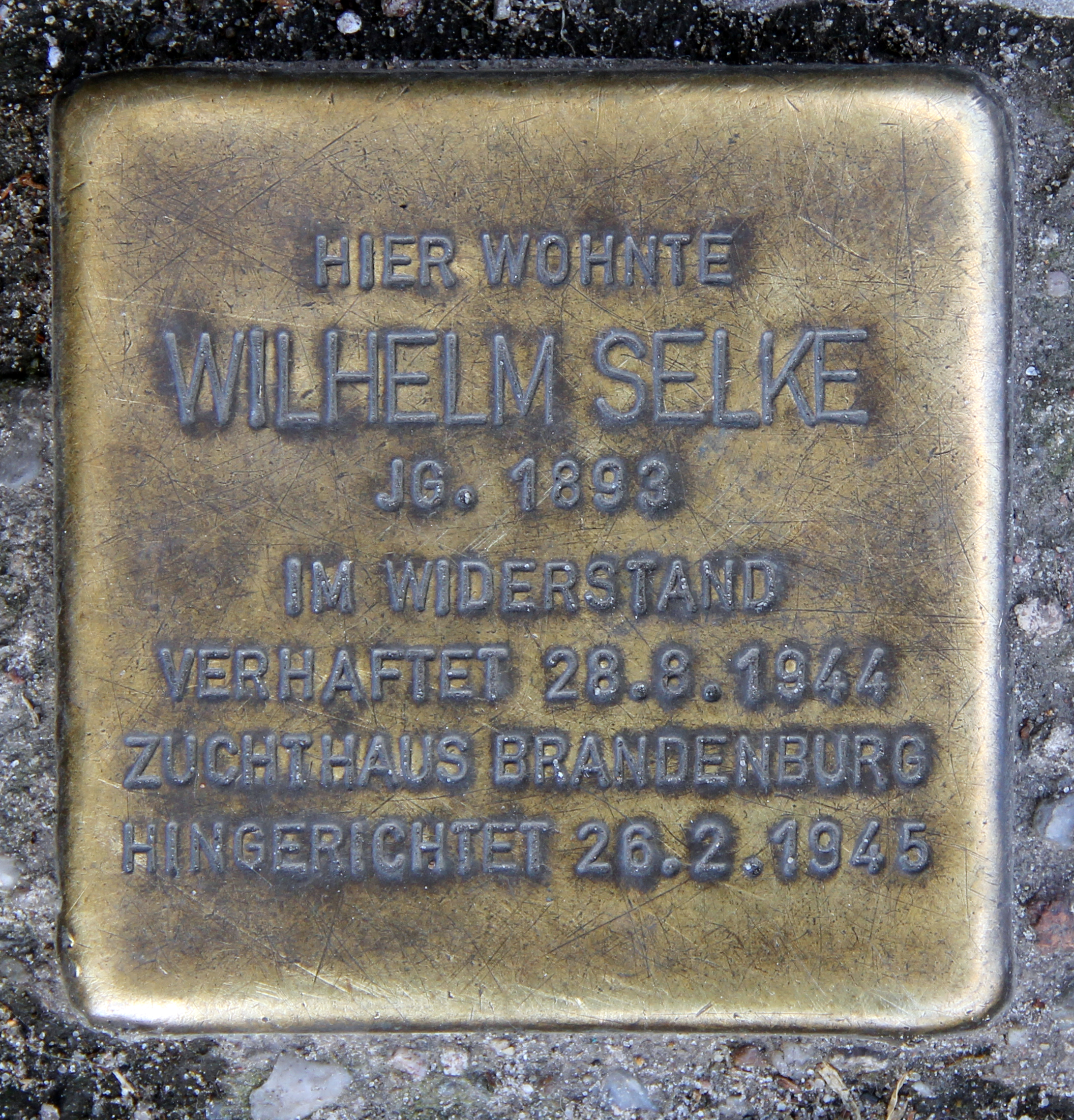 "Stolperstein" (stumbling block), Wilhelm Selke, Ritterstraße 109, Berlin-Kreuzberg, Germany